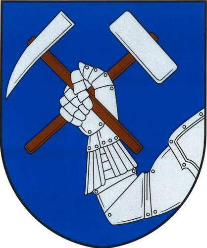 Municipal coat of arms of Krajková town, Sokolov District, Czech Republic.